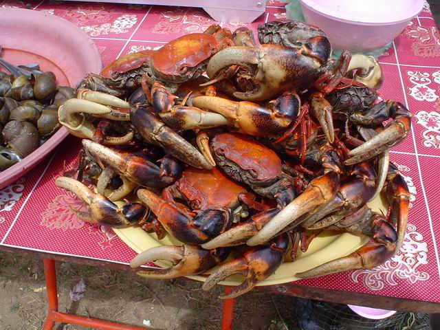 This picture by Albeiro Rodas can be used for any purpose, provided that his name is credited.